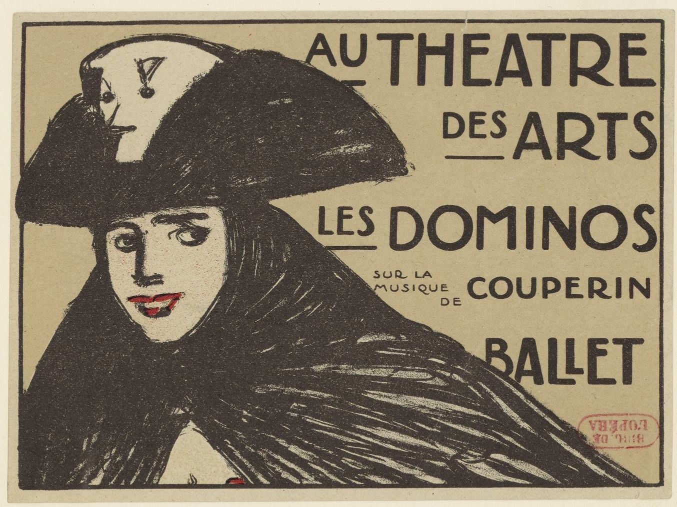 Au théâtre des arts poster - Les dominos sur la musique de Couperin (1911) - Maxime Dethomas. Printed by Eugène Verneau. Premiered December, 1911.